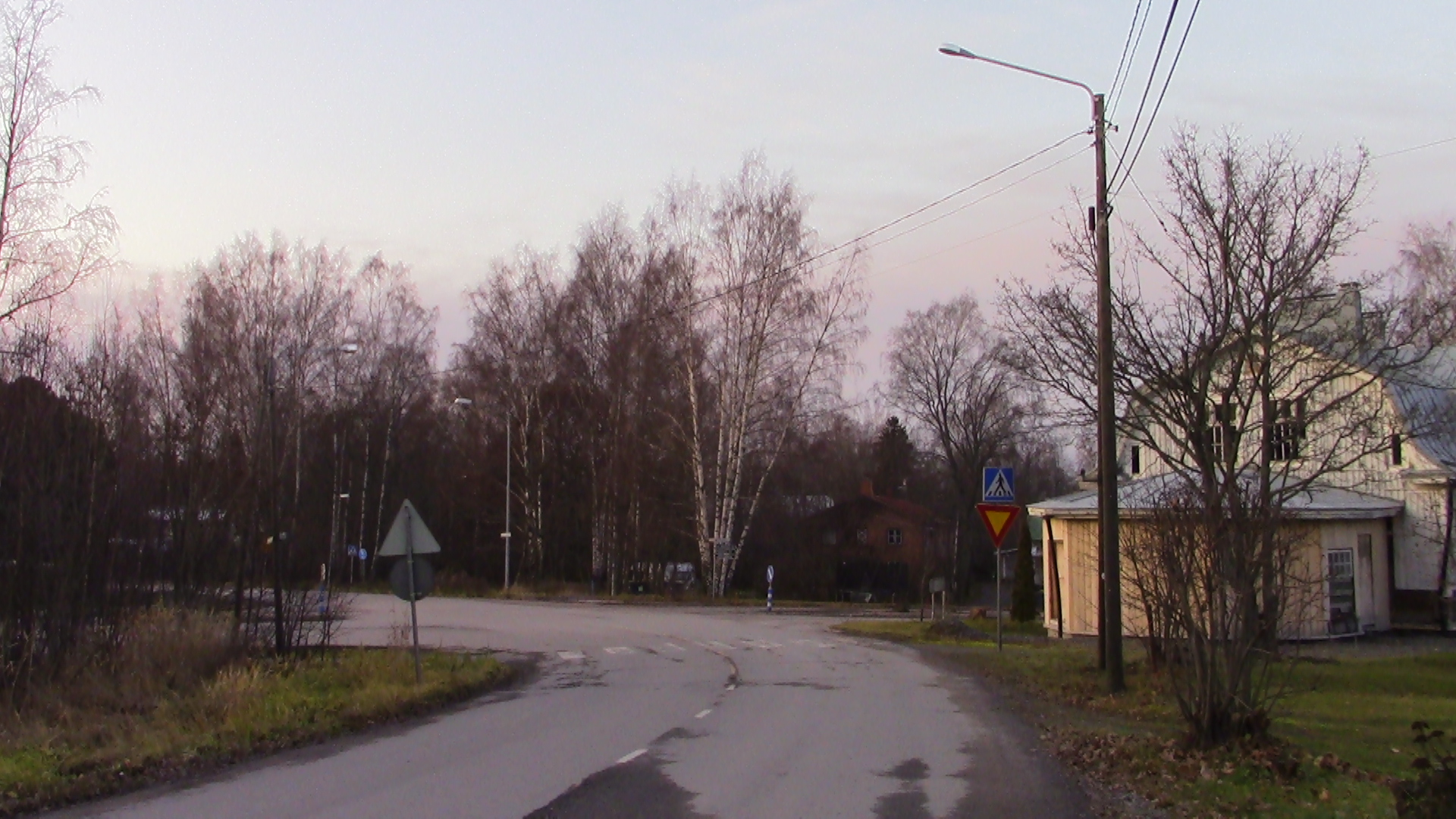 Finnish connecting road 2652 at Pihlava suburb in Pori. The road runs from Pikakylä to Meri-Pori and It's a part of an old Pori-Mäntyluoto road.